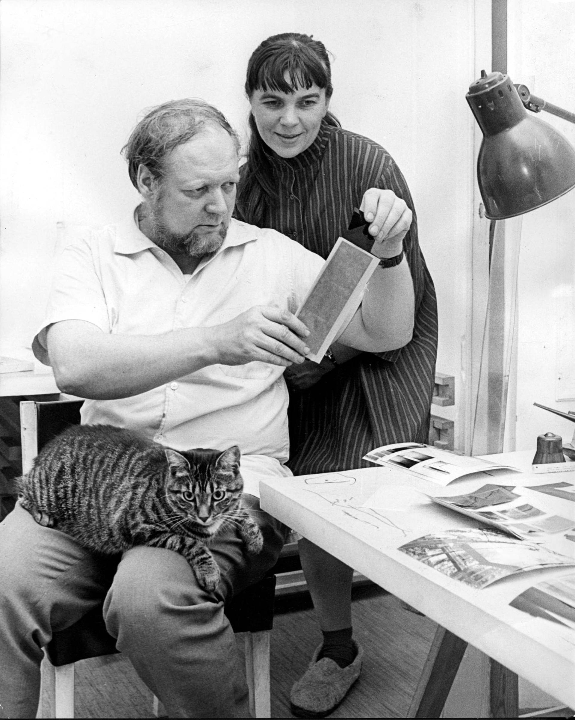 Photograph of the Finnish architects Reima Pietilä (1923–1993) and Raili Pietilä (1926–).